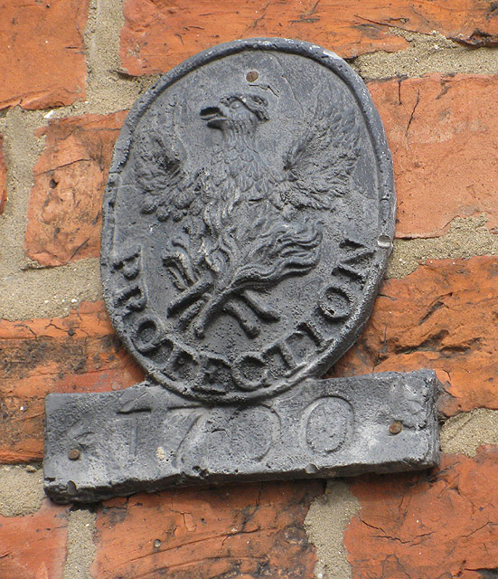 Phoenix fire plaque, Pickering These metal plaques, or badges, erected by insurance companies, were used to show that a property was insured. There are two types - early plaques were mostly cast in lead and displayed either a painted or engraved number which corresponded to the number of the insurance policy. The second type, known as a fire-plate was pressed from either thin copper-plate, or tinned sheet-iron. The Phoenix: Near the end of the 18th century, the sugar bakers and refiners of London, unsurprisingly found difficulty in obtaining insurance cover at moderate premiums from existing offices. In 1782 they set up their own company which they called the New Fire Office. They adopted a Phoenix rising from the flames as their badge. This was depicted on their fire mark together with the word 'Protection'. The company quickly flourished and the Phoenix is one of the most common of all fire marks.